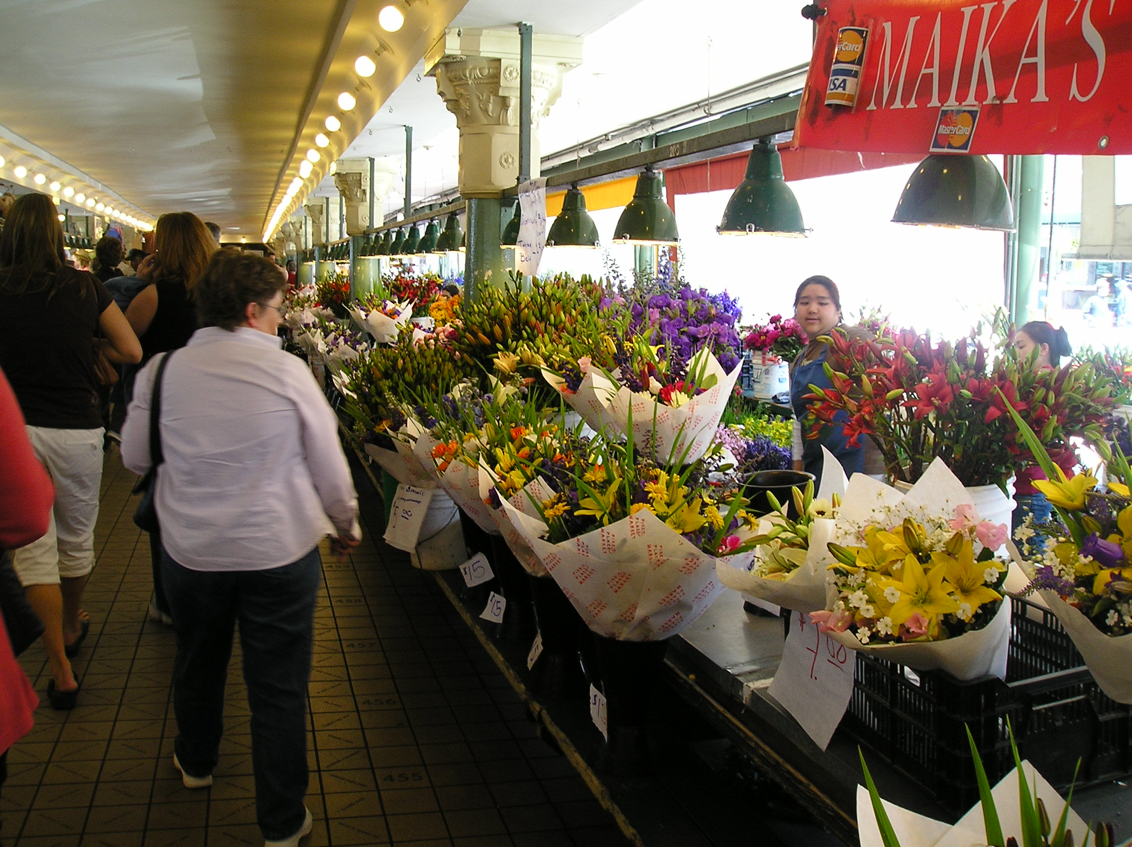 Flowerstalls at Pike Place Market